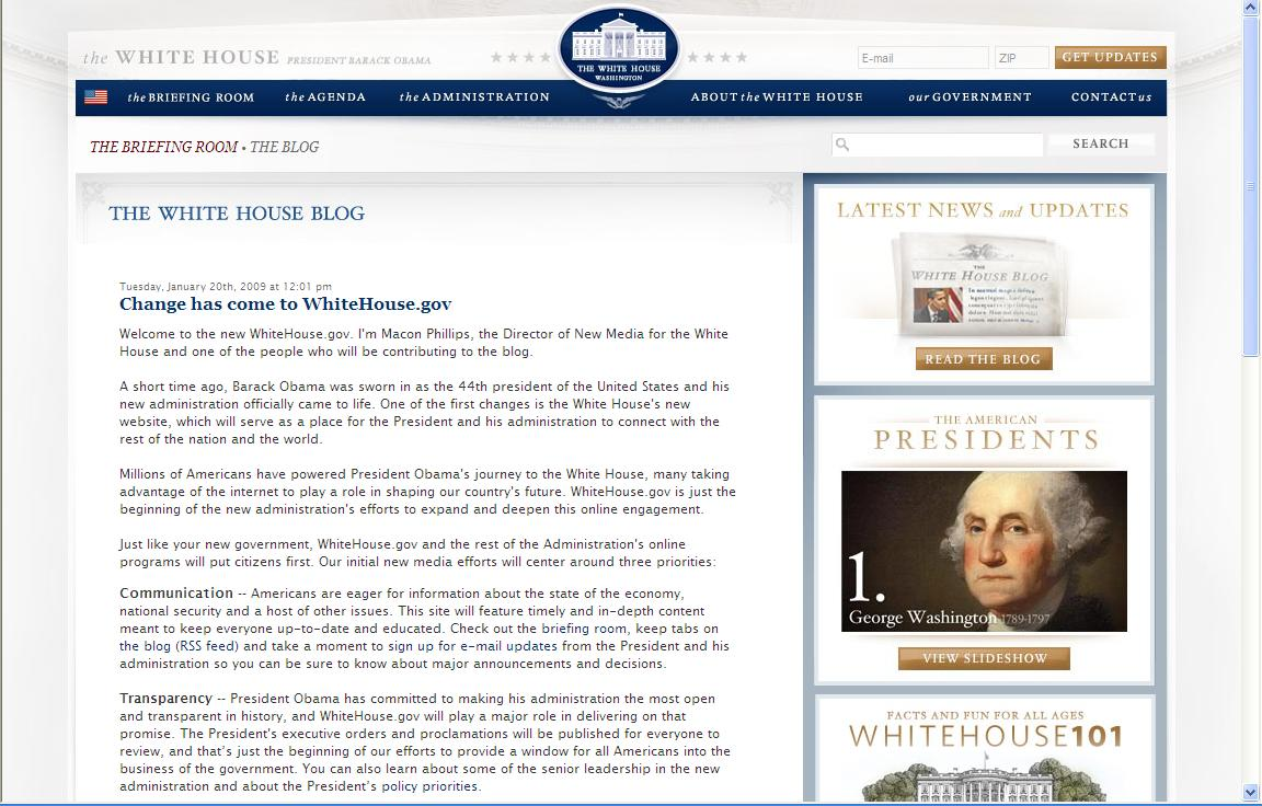 Screenshot of the first post that appeared on the White blog just after the inauguration of Barack Obama. Screenshot taken with Internet Explorer.